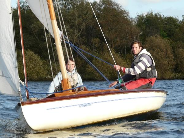 sailing